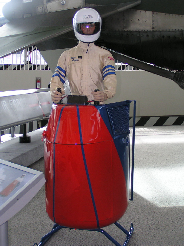 Williams X-Jet displayed in Museum of Flight in Seattle